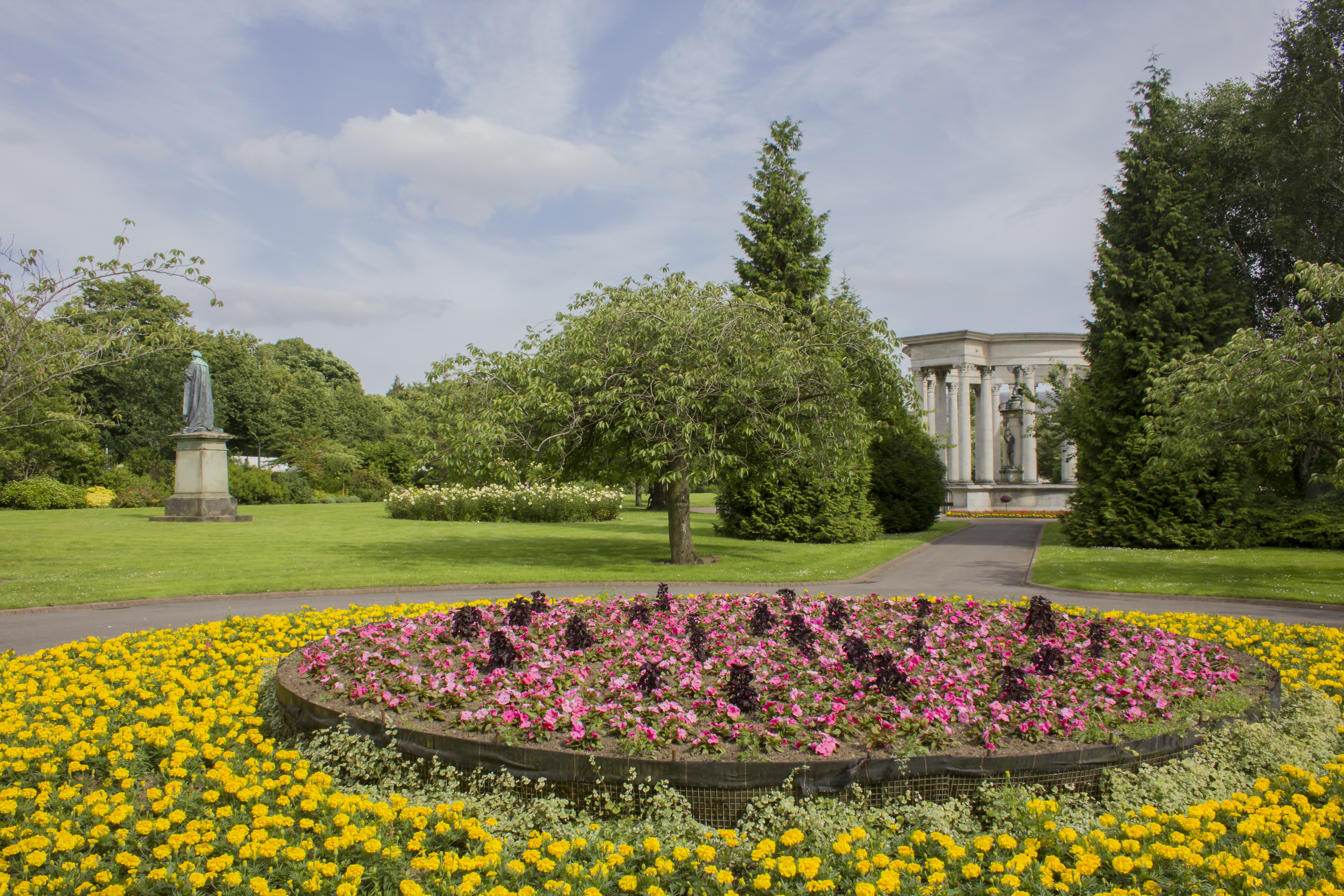 Cathays Park, Cardiff